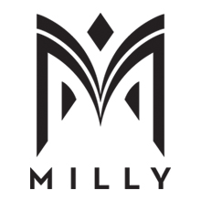 MILLY brand logo